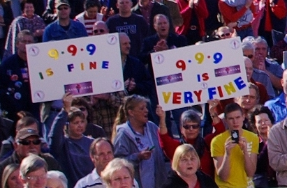 U.S. presidential candidate Herman Cain speaks at a rally at Tennessee Tech University in Cookeville, Tennessee. His campaign tour bus is behind the audience.